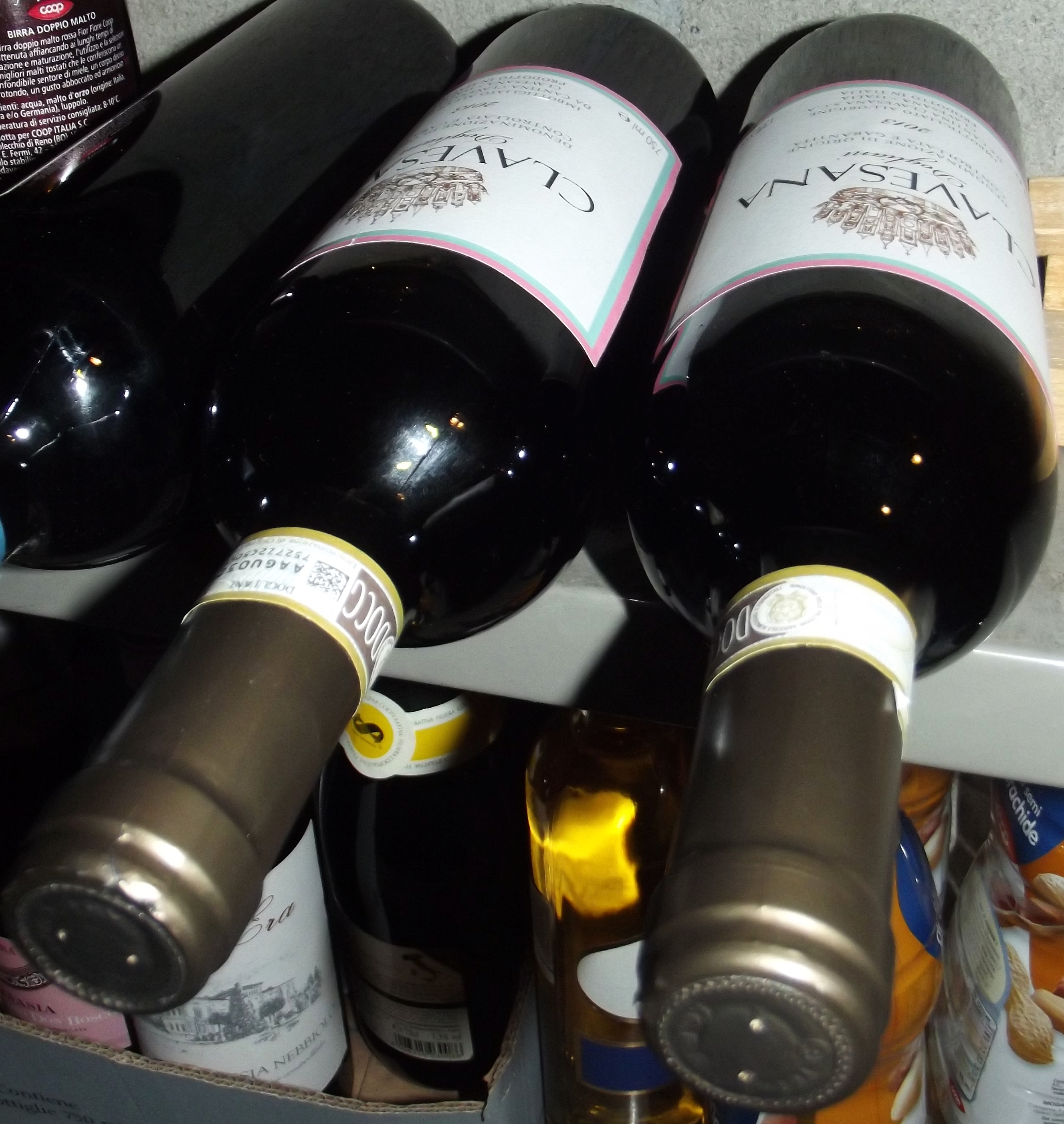 Dogliani DOCG 2013